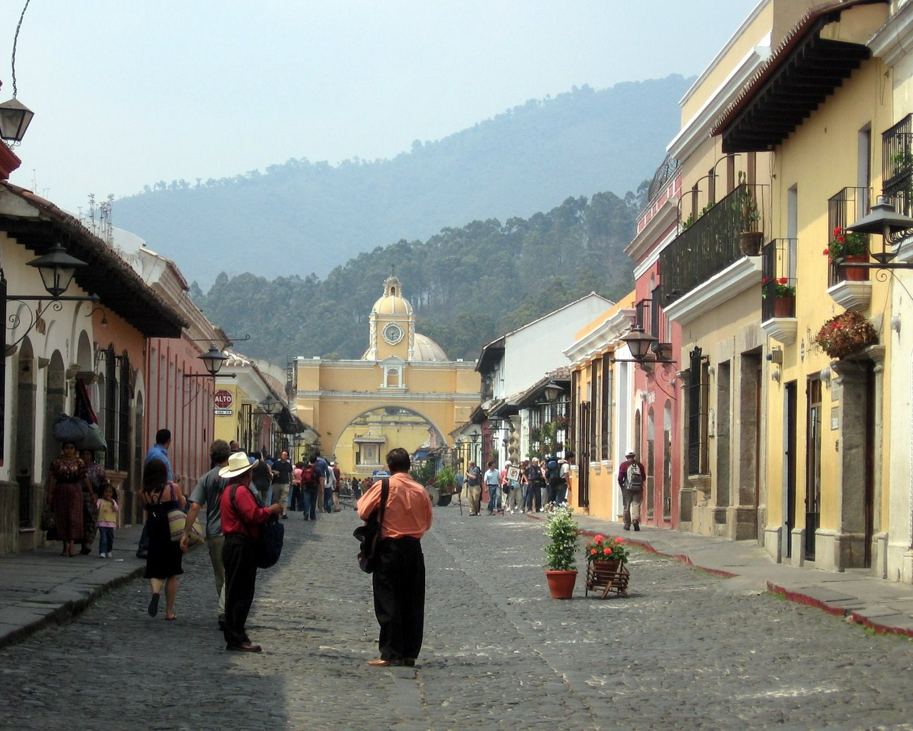 The Arch of Santa Catalina in Antigua Guatemala